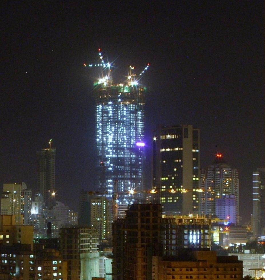 A skyscraper in mumbai